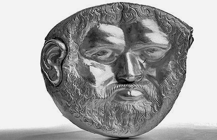 the golden mask of Teres